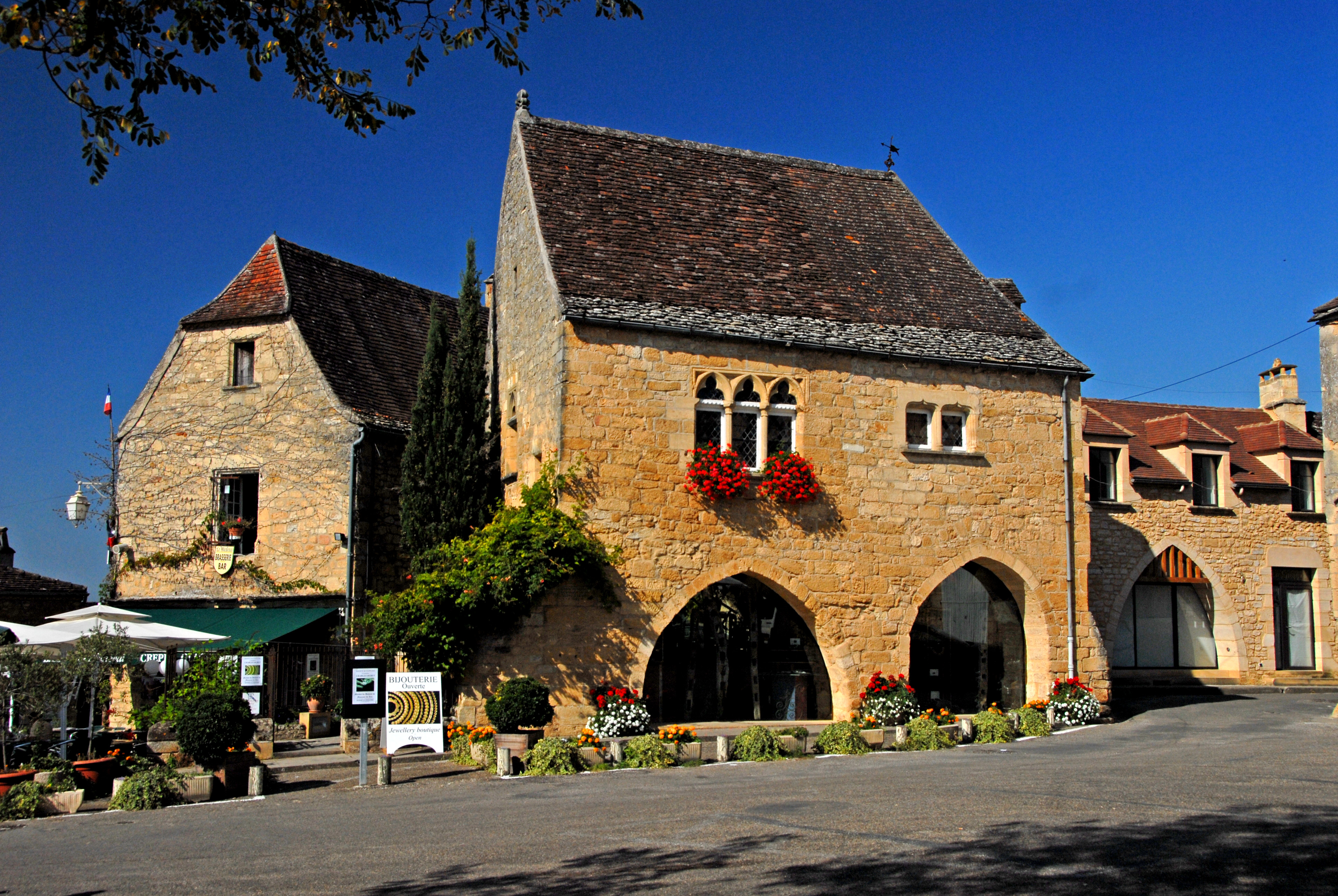 Domme, Place de la Rode